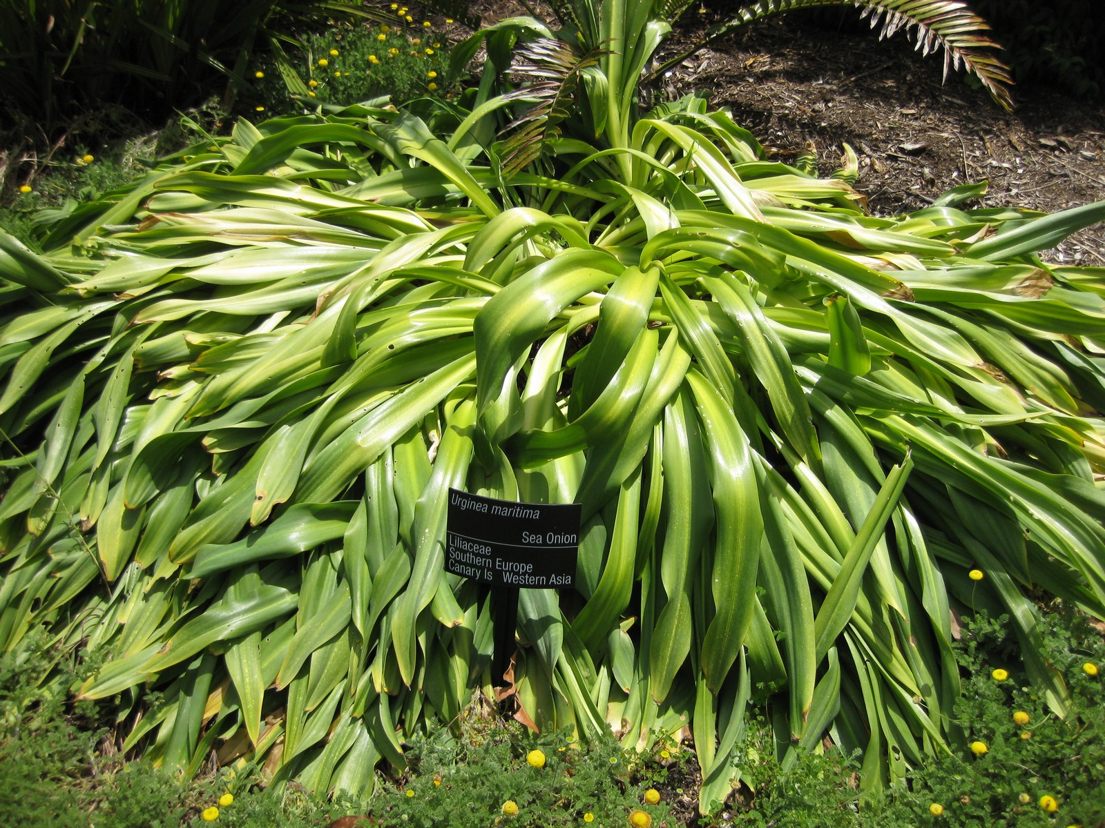 Photographed at the Royal Botanic Gardens Melbourne (Australia) in December